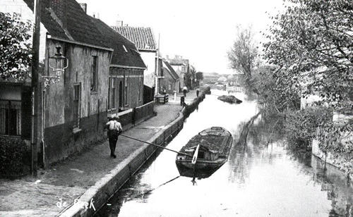 The Beekkade (Creek Wharf), Hillegom, the Netherlands